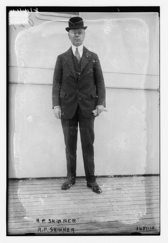 Robert Peet Skinner in 1915